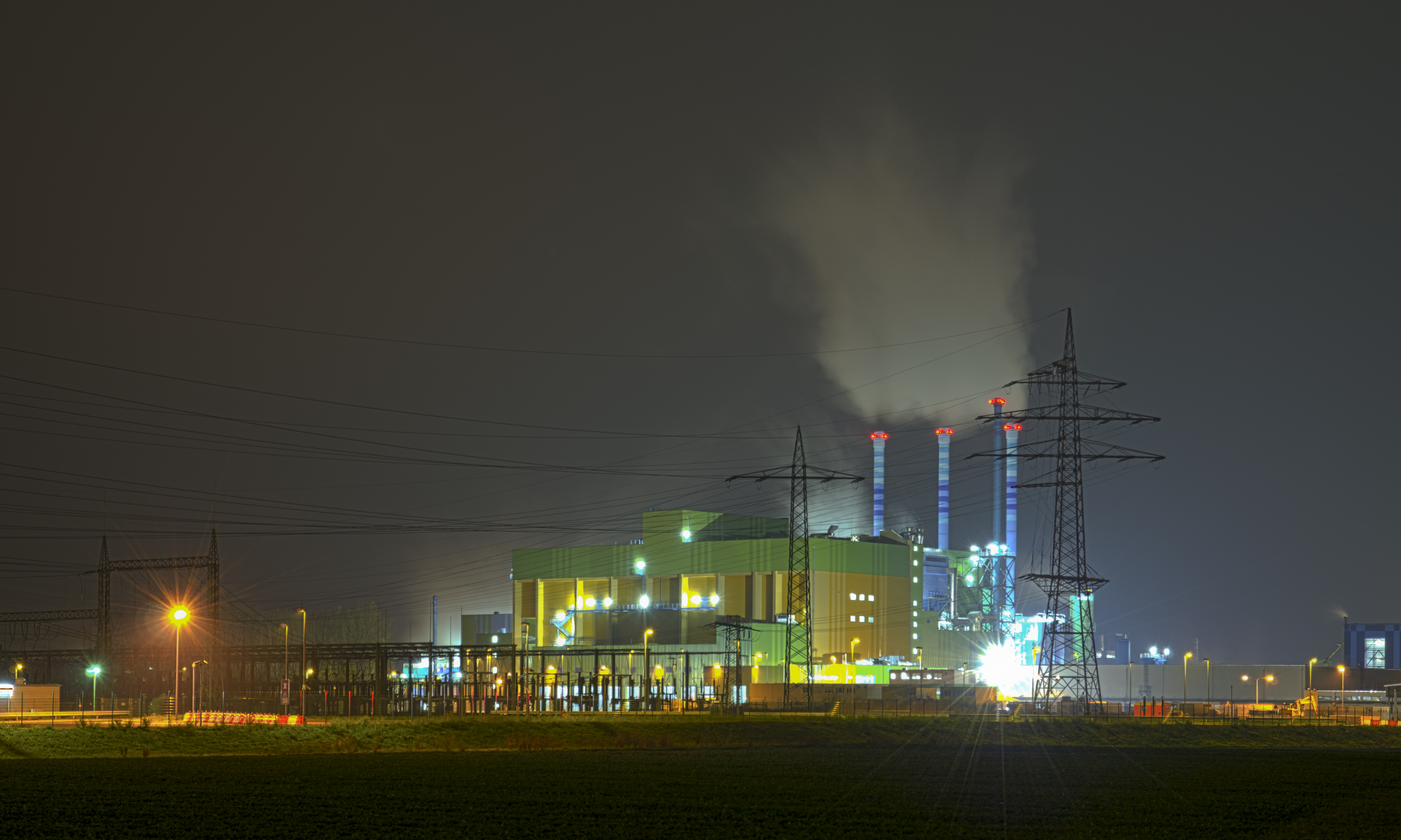 Incinerator (waste-to-energy plant; waste incineration plant), Industry park Höchst, Hesse, Germany. Presumably the largest incinerator in Germany with a capacity of about 675000 tons per year. Tone-mapped HDR image.